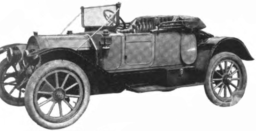 The Great Southern 30, two passenger roadster in the January 1, 1914 issue of Motor Age. This automobile was manufactured in Ensley, AL by the Great Southern Automobile Company.